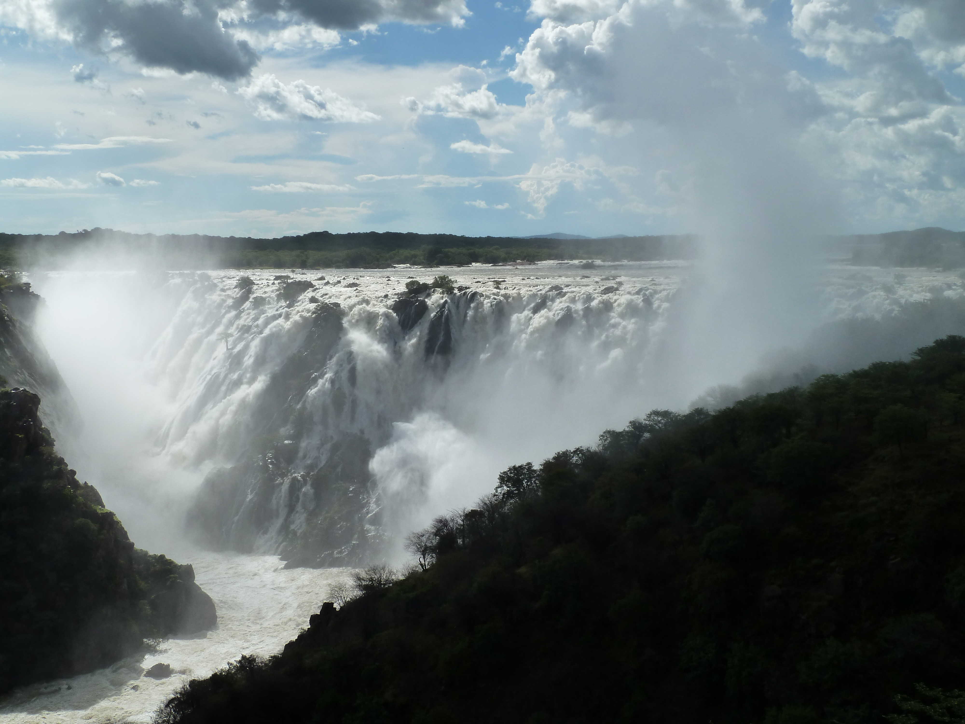 Ruacana Falls at High Water from distance, in 03/2011. Author: Tom Jakobi